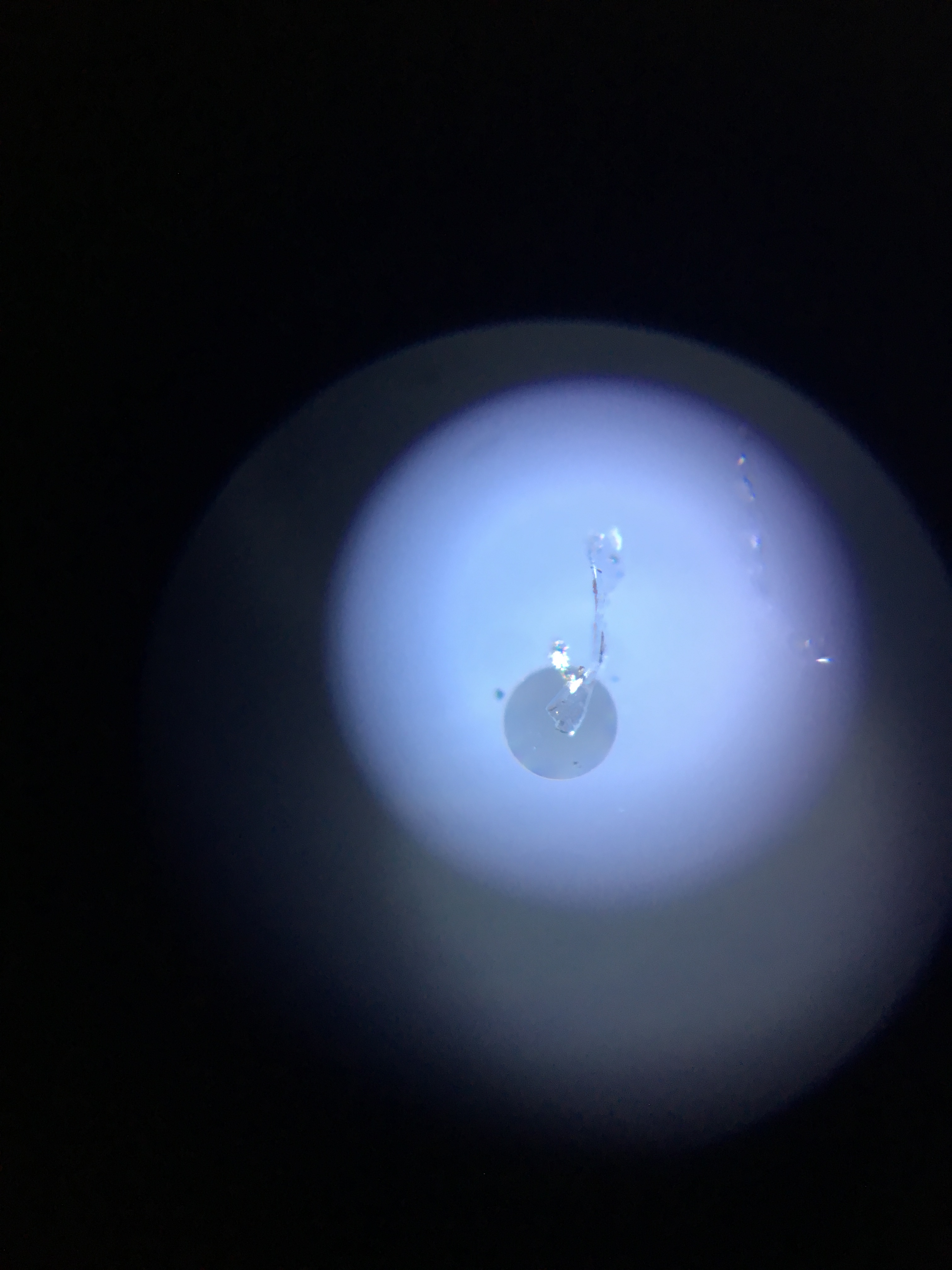 Cross section of a single-mode optical fiber patch cord end, viewed through a fiberscope, (i.e. an illuminated microscope for viewing the ends of fibers.) The large dark circle in the center is about 125 microns in diameter. Debris is also visible in the illuminated halo around the tip of the fiber, like a long strand.